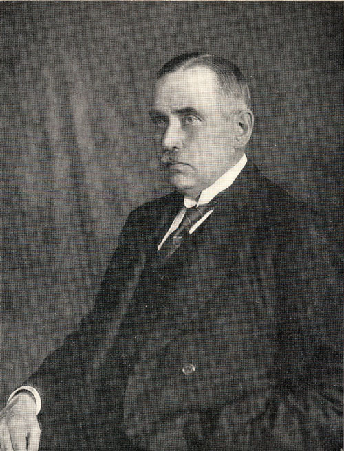 Einar Lindgren (1875-1928), Danish ophthalmologist.